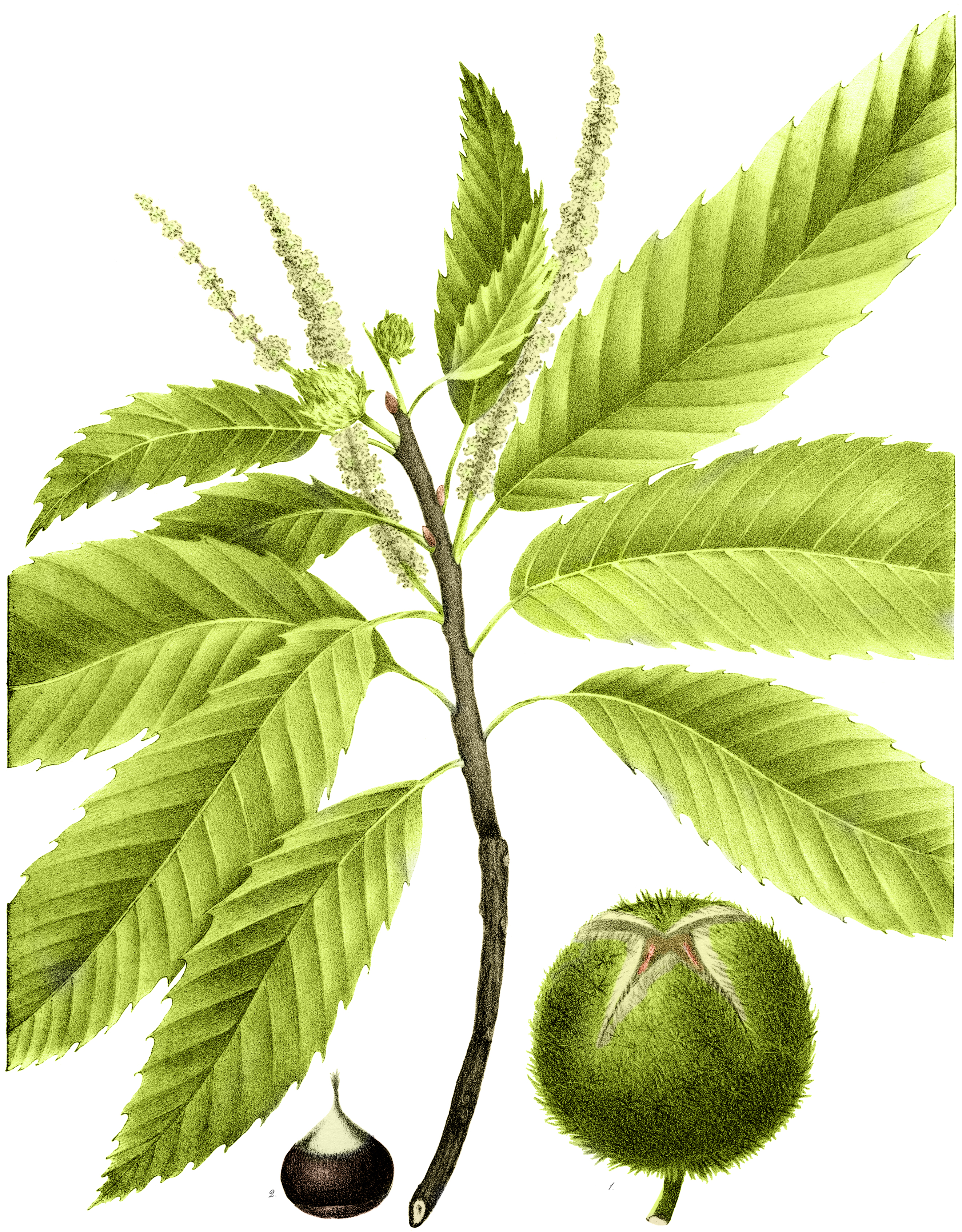 Plate 40. Castanea dentata (American chestnut). Caption reads "Castanea vesca, var Americana. American Chestnut. Lith. of Endicott, N. Y."